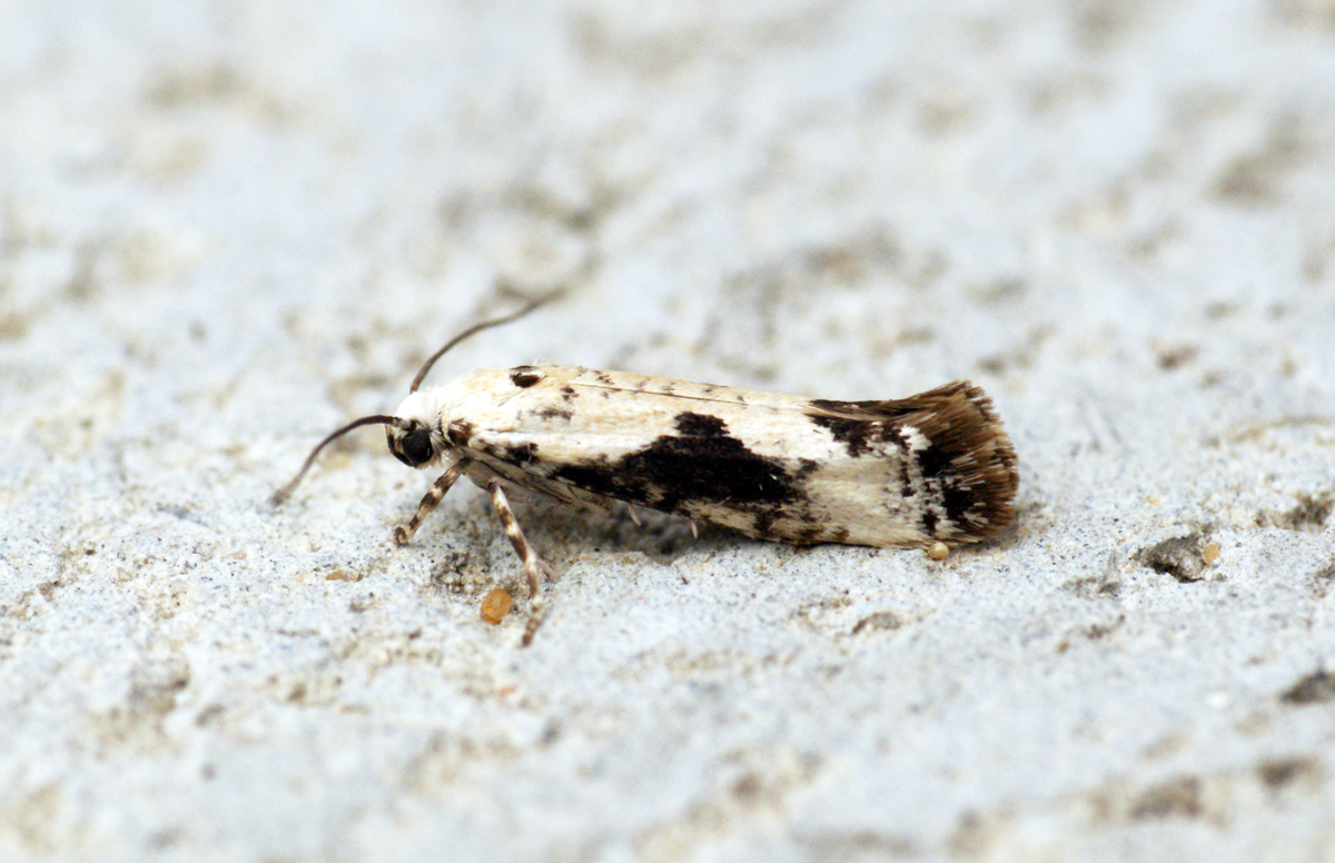 Roughdown Common, Hemel Hempstead